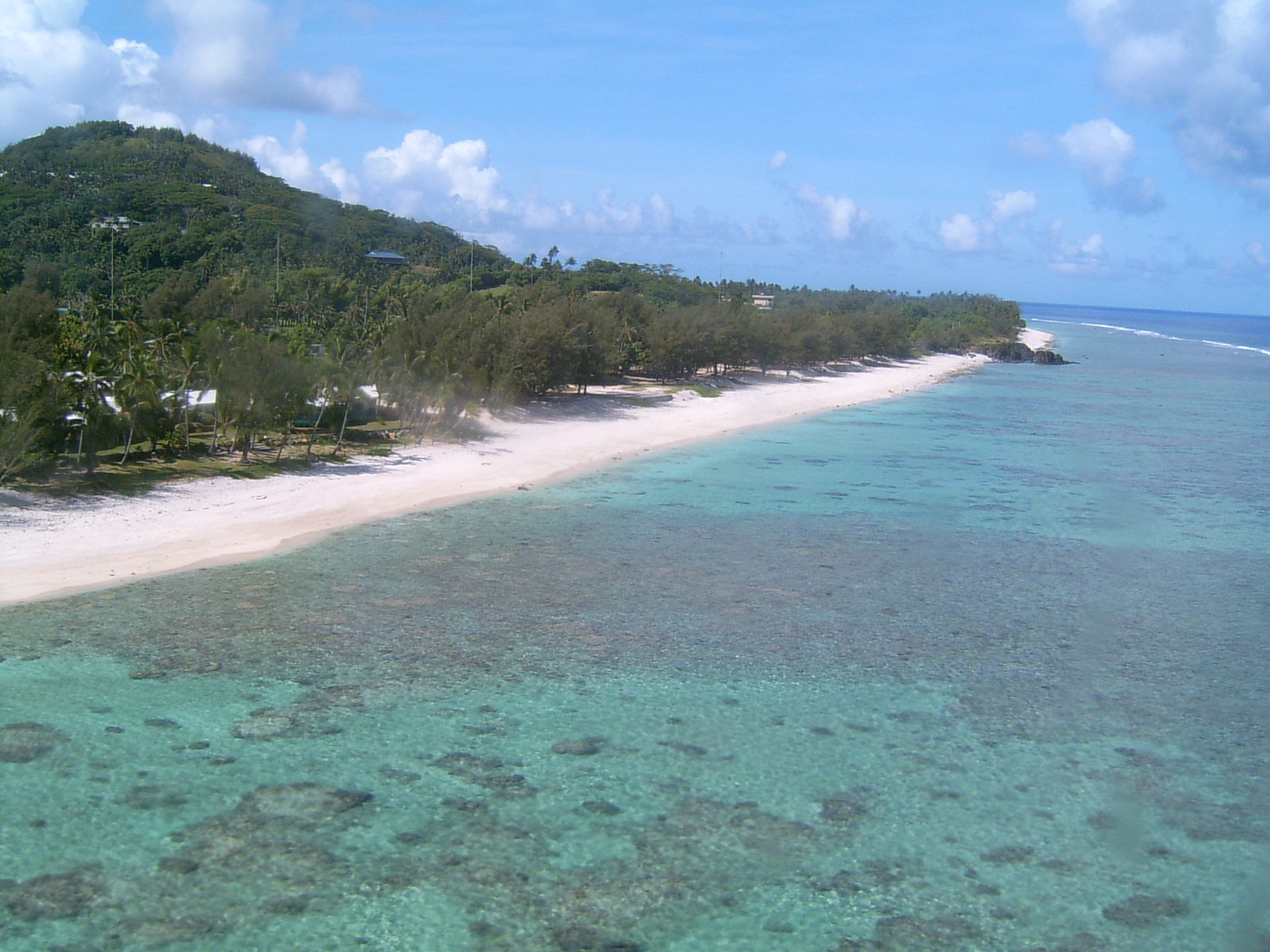 The island Rarotonga of the Cook Islands.